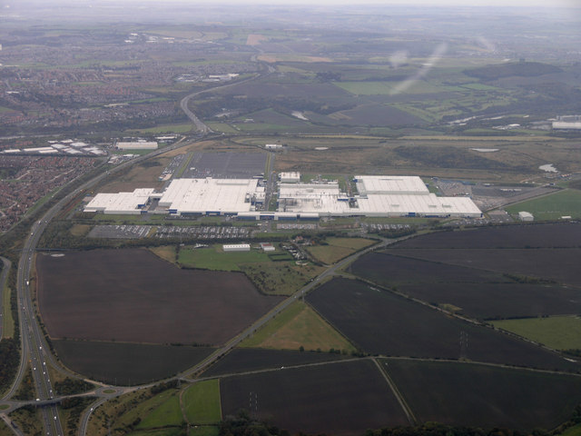 Nissan Motor Works from the Air